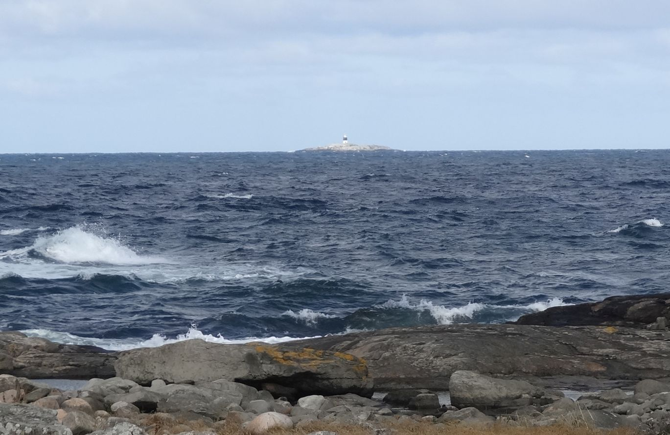 Island and lighthouse Stora Pölsan photographed from the island Hyppeln, in Gothenburg northern achipelago, Sweden.